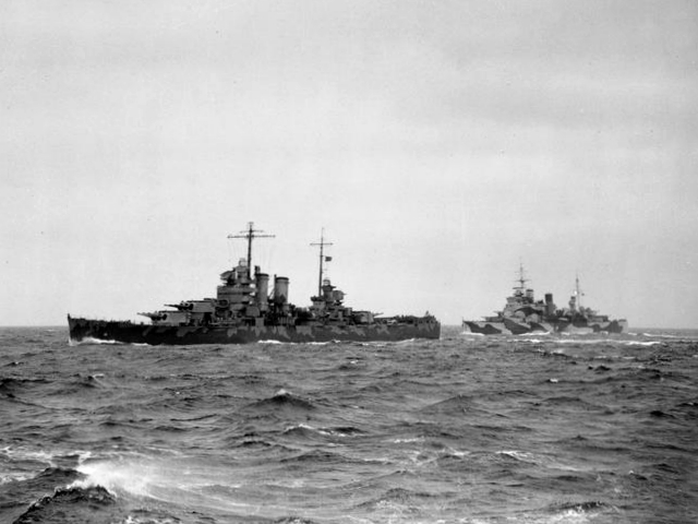 The U.S. Navy cruiser USS Wichita (CA-45) and HMS London (69) formed the covering force for PQ17, together with USS Tuscaloosa (CA-37) and HMS Norfolk (78).